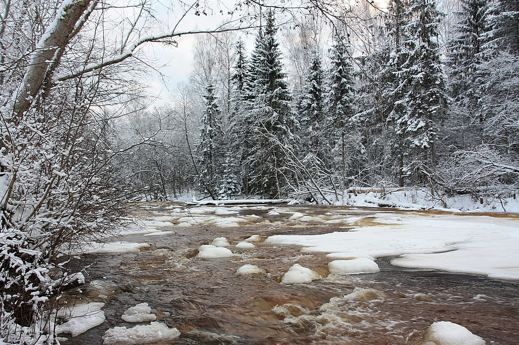 River Amata, Gauja National Park, Latvia